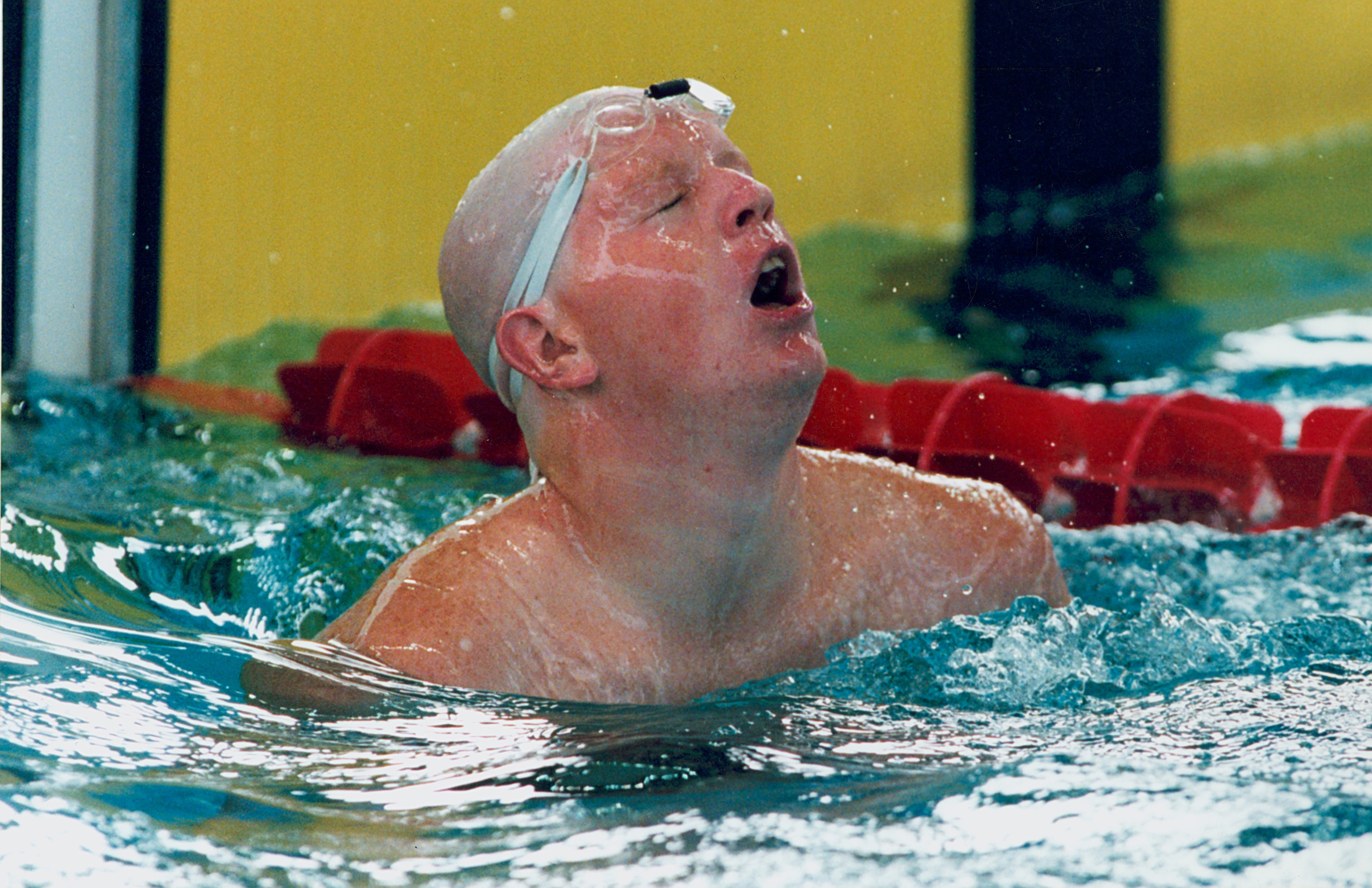 Australian S14 swimmer Paul Cross gasps for breath at the end of a race at the 1996 Atlanta Paralympic Games